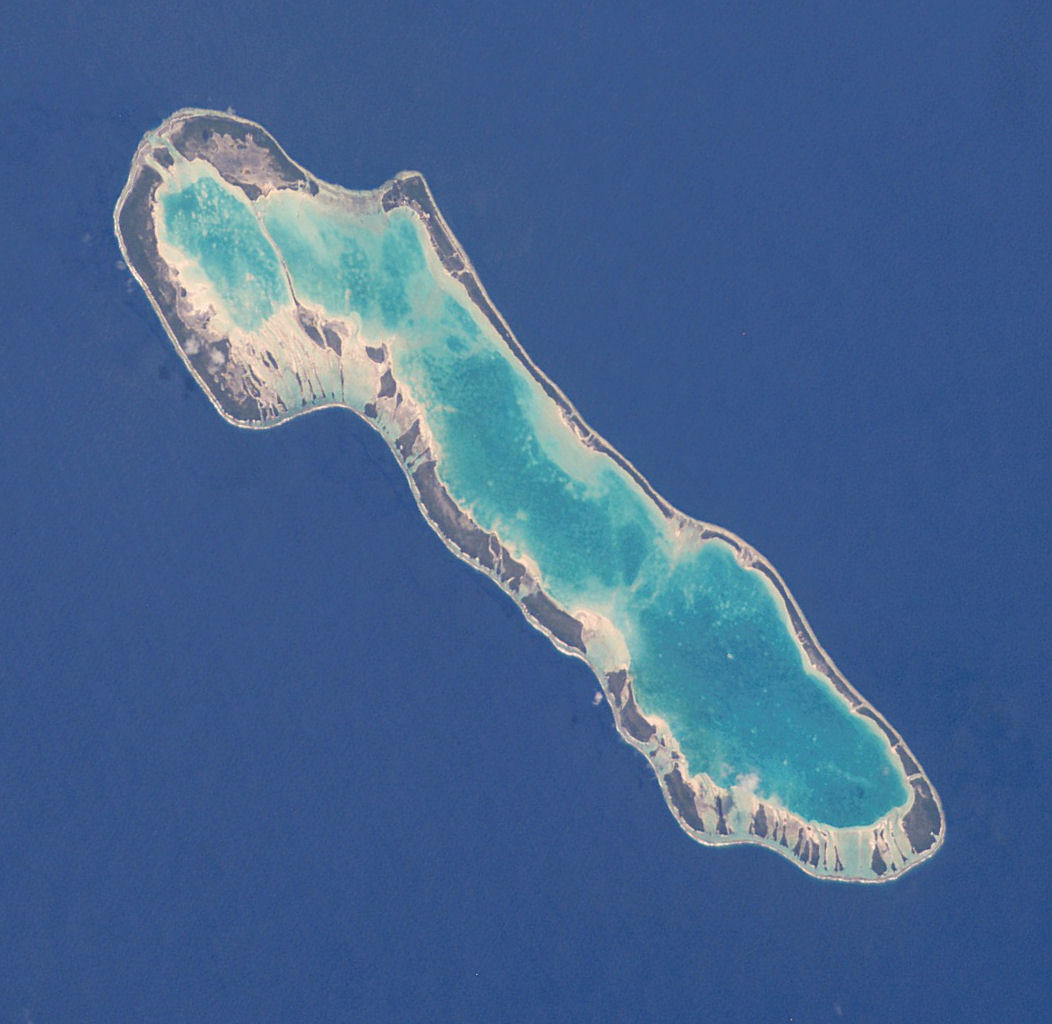 Anaa Atoll, Tuamotu Archipelago, French Polynesia